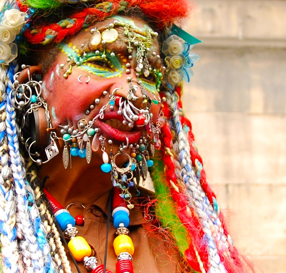 Front shot of Elaine Davidson, the most pierced woman in the world, according the Guinness Book of World Records.